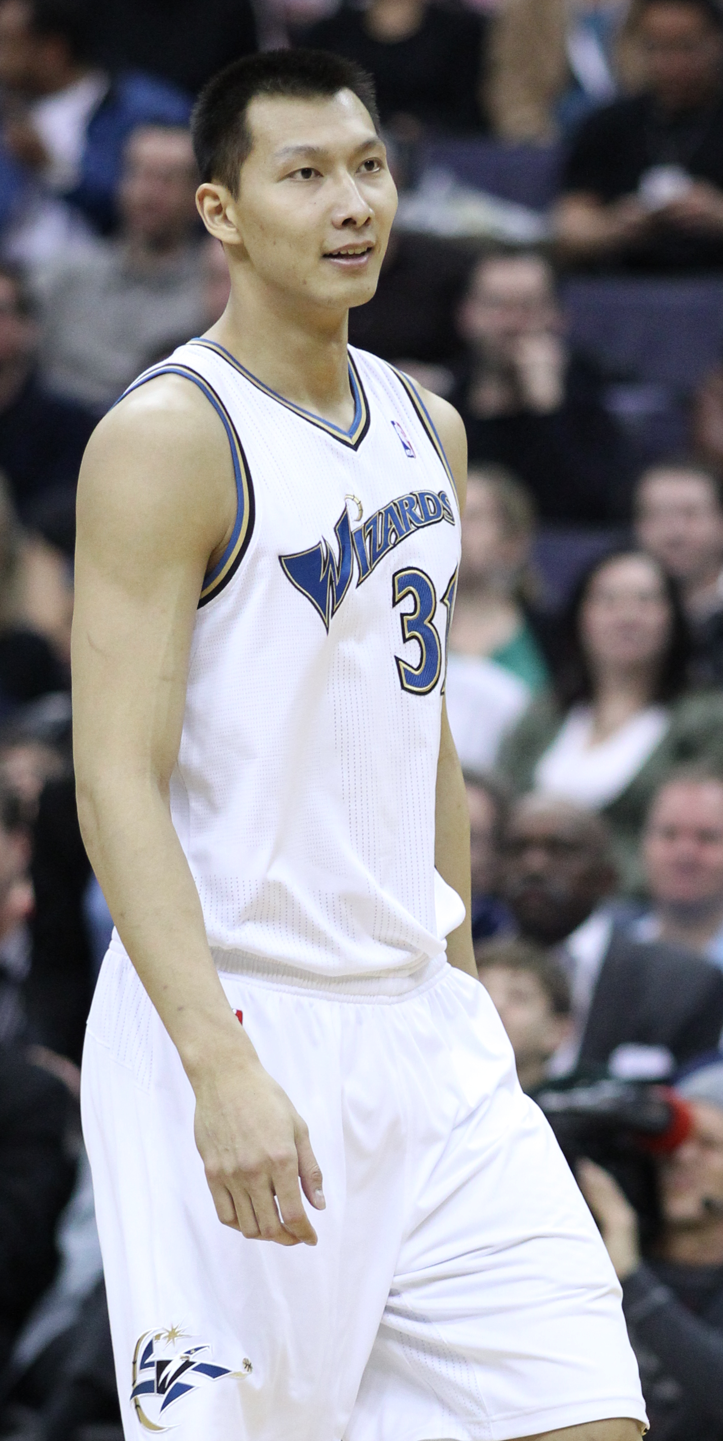 Washington Wizards v/s Denver Nuggets January 25, 2011